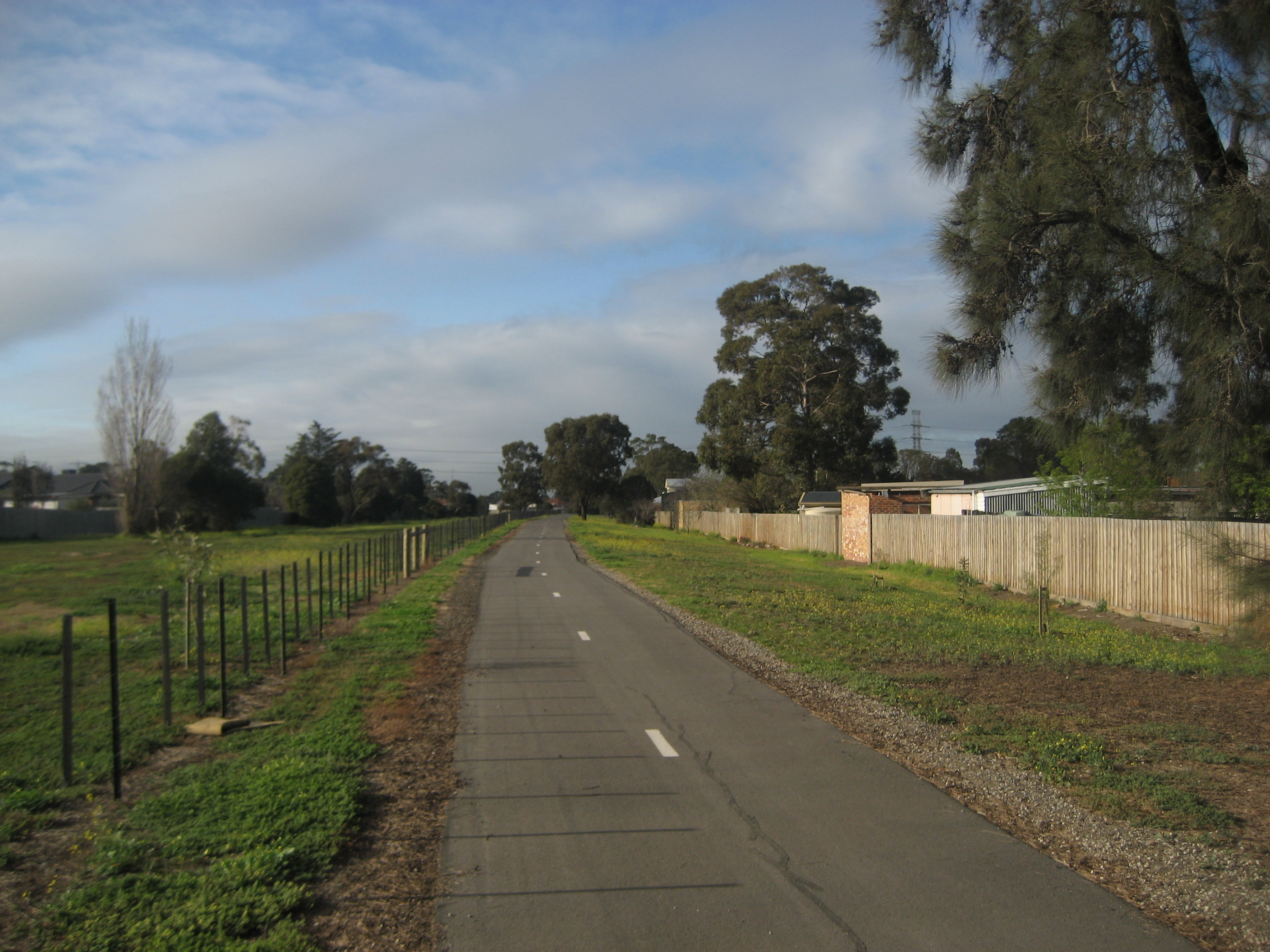 Federation Cycle Trail, Brooklyn, Victoria